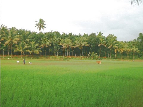 A paddy field in Sooranad